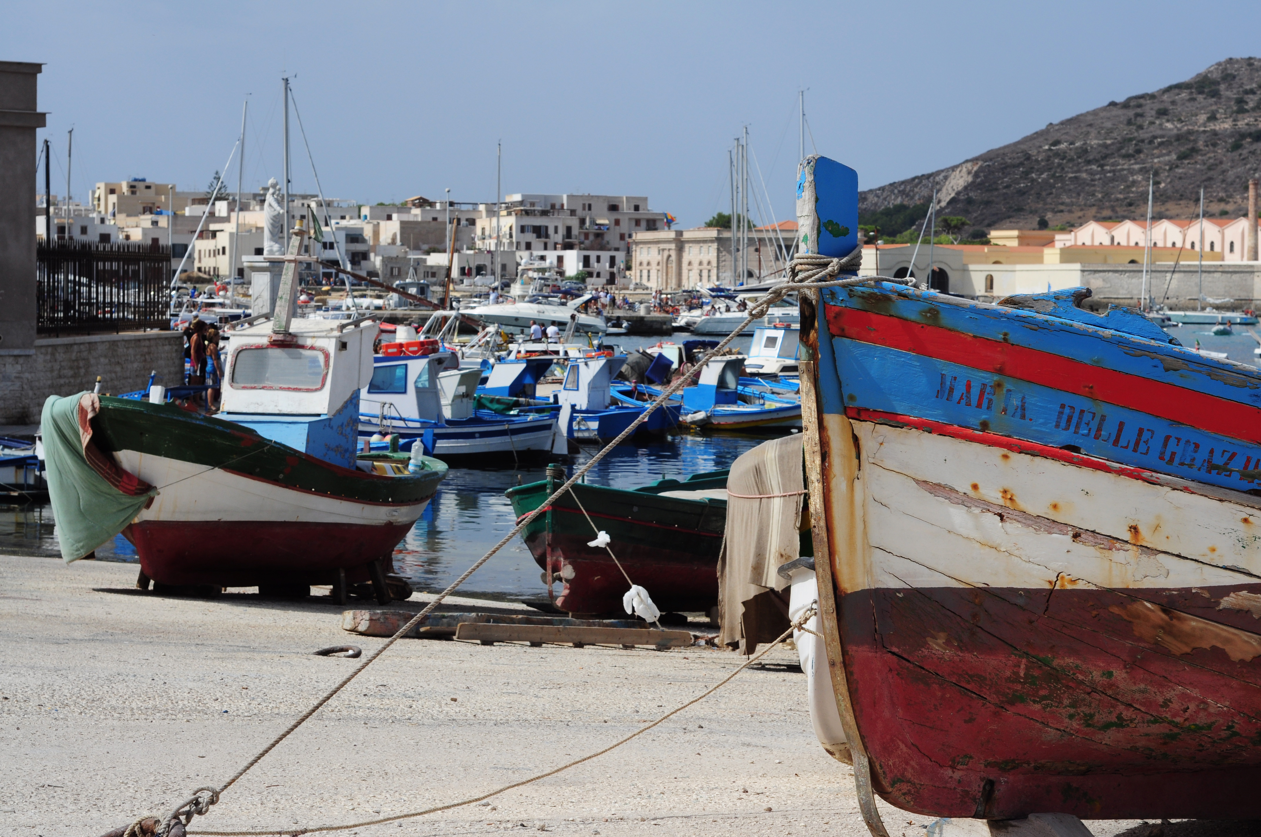 The harbour of Favignana, Italy.